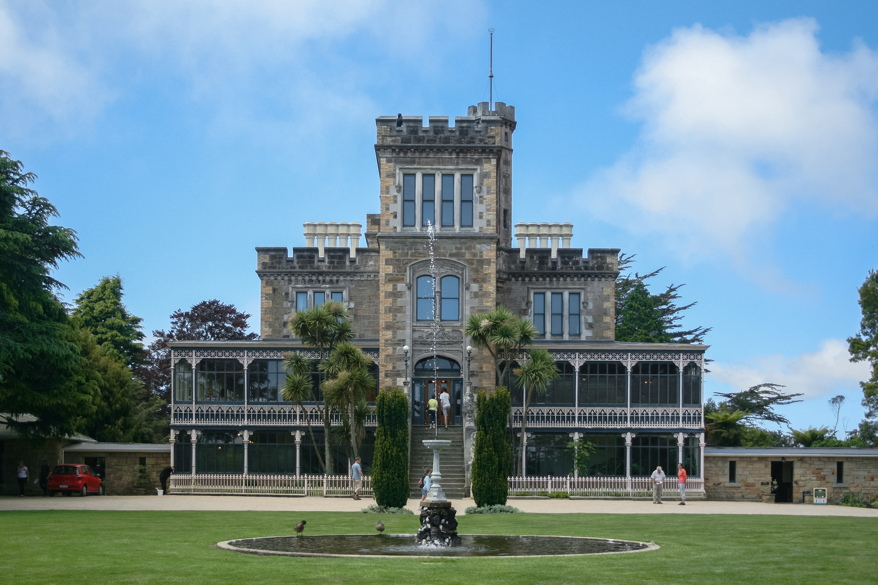 Larnach Castle, Otago Peninsula, New Zealand